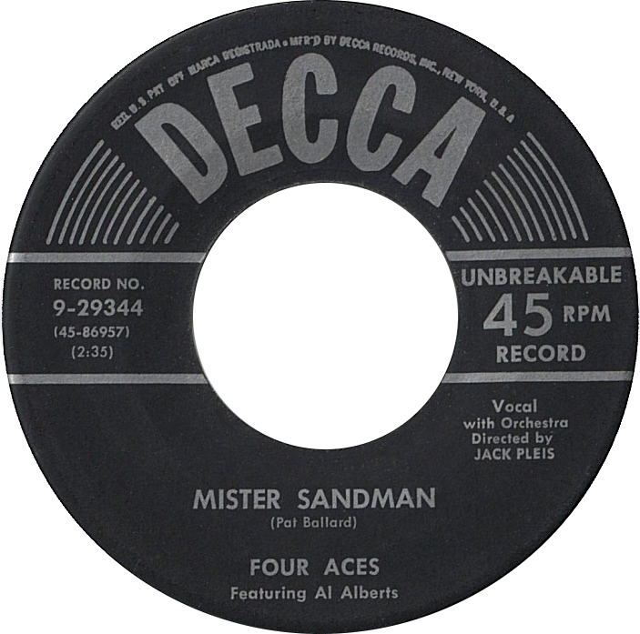 Mister Sandman by The Four Aces featuring Al Alberts US vinyl